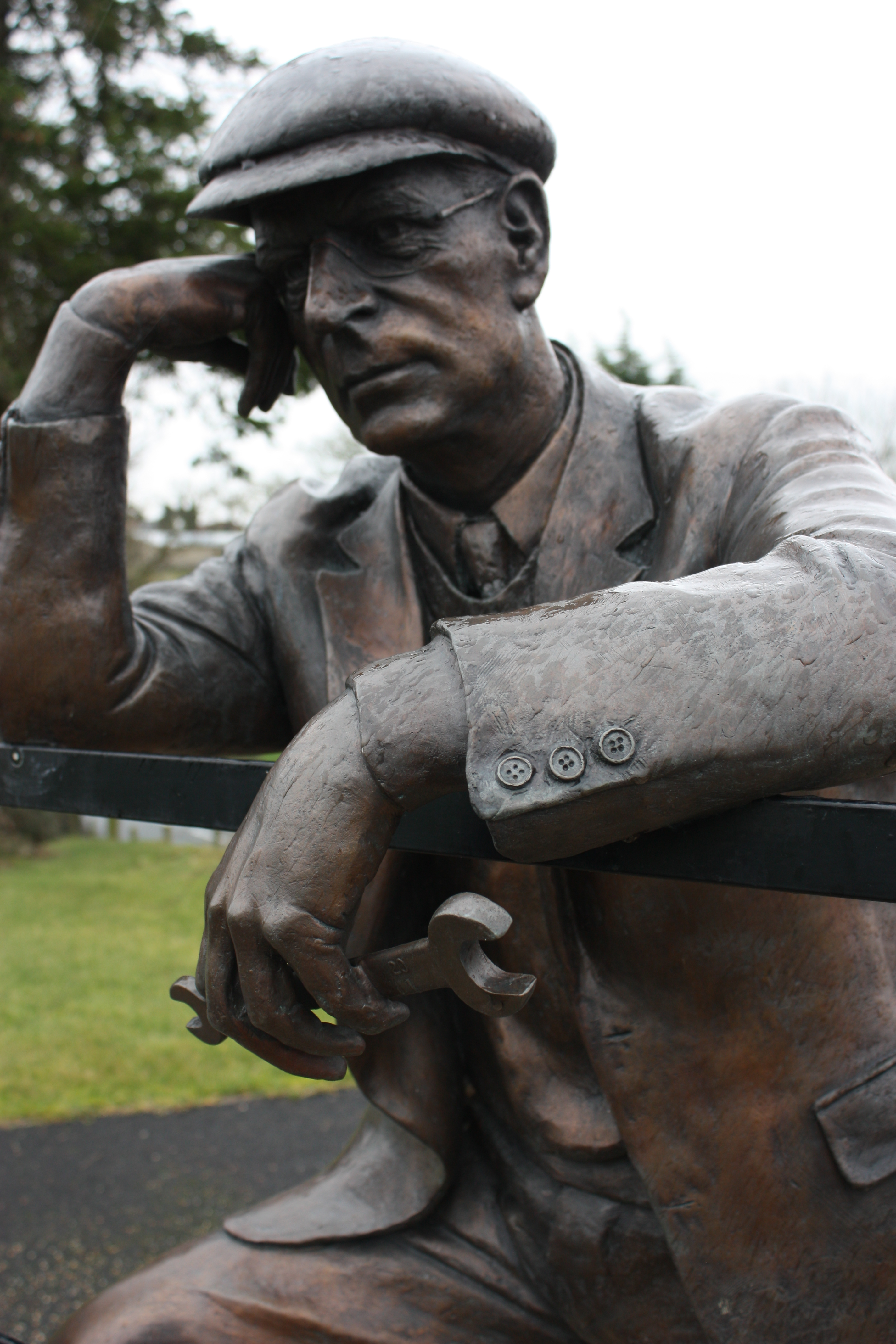 Harry Ferguson Sculpture, Harry Ferguson Memorial Garden, Magheraconluce Road, Growell, County Down, Northern Ireland, February 2011